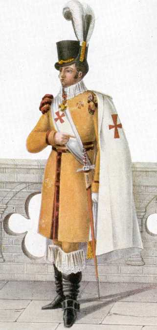 Ceremonial robes of the Order of Charles XIII